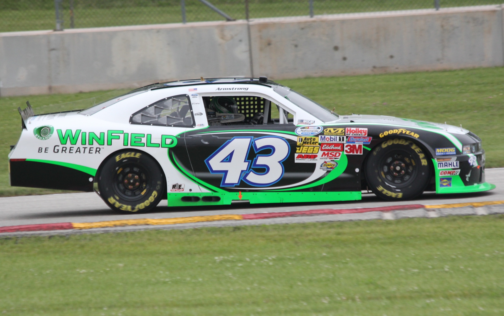 The passenger side of Dakoda Armstrong Nationwide car during the 2014 Gardner Denver 200 at Road America. Taken racing up the hill in turn 13.